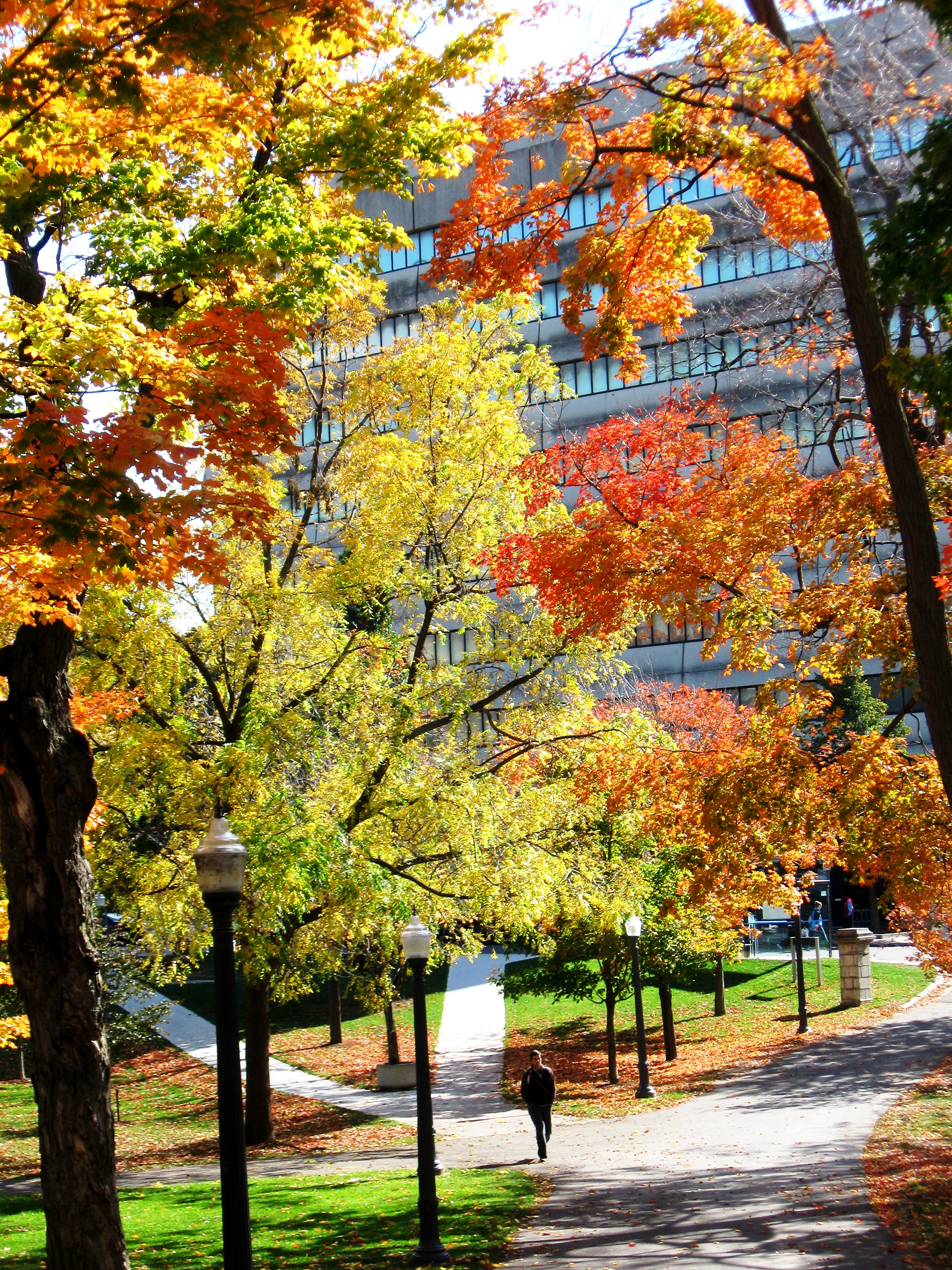 Botterell Hall through the trees surrounding Summerhill